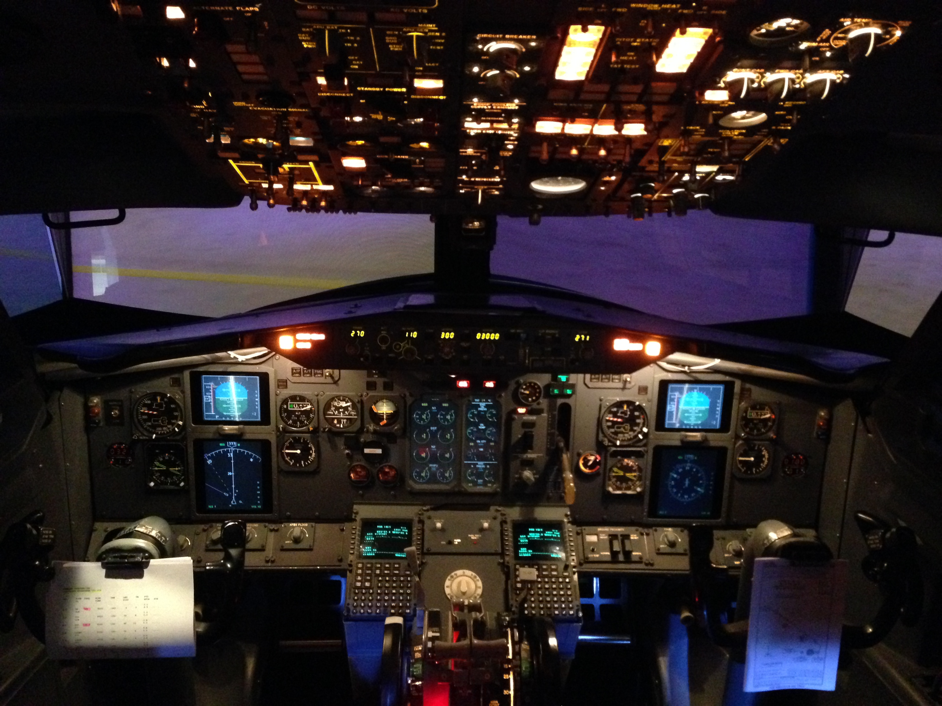 Oxford Aviation Academy B737-400 Sim